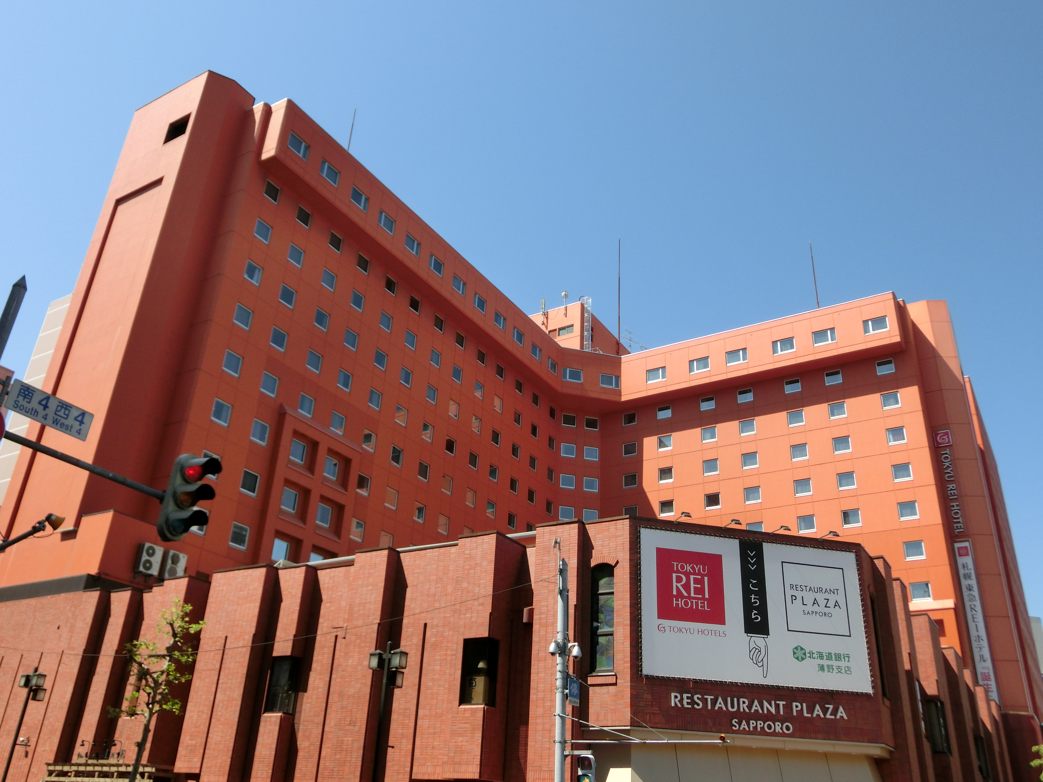 Sapporo Tokyu REI Hotel